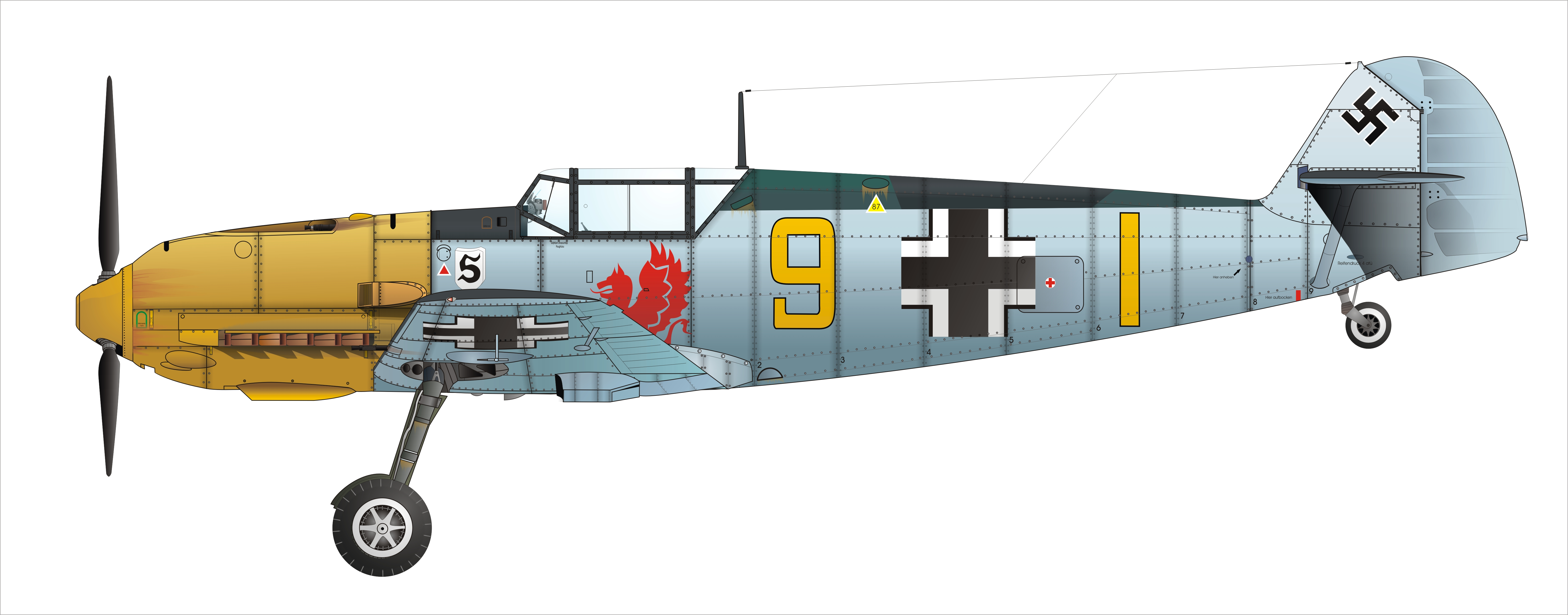 Bf 109 E-3, III/JG 26